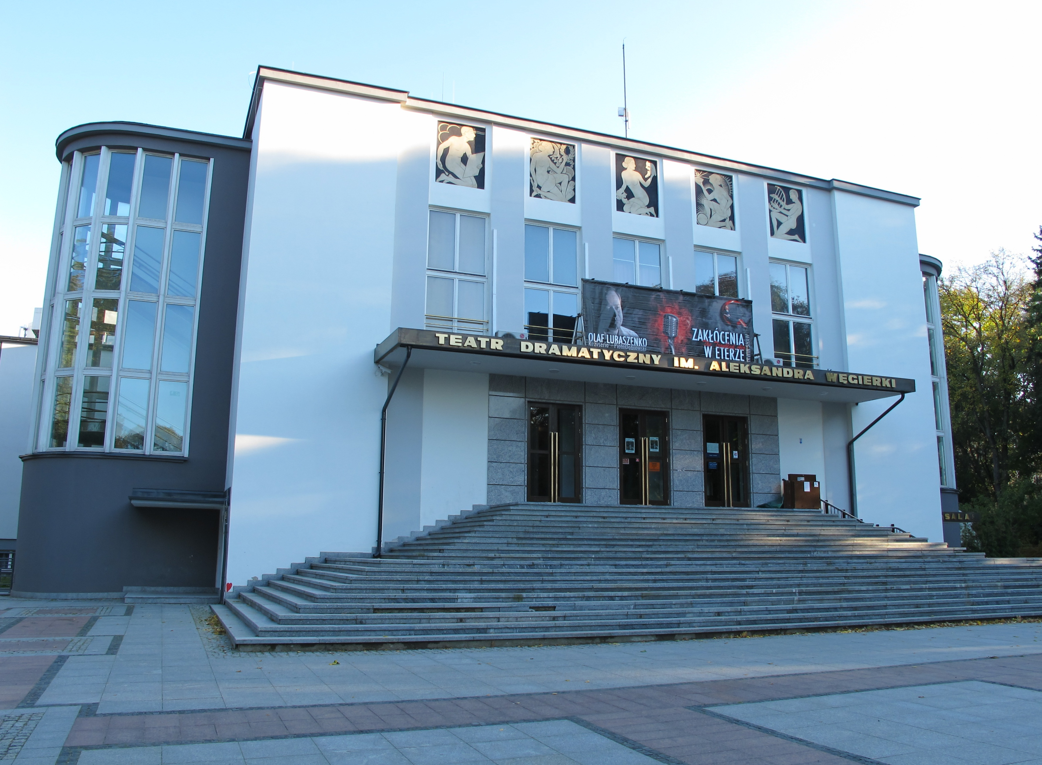 Wegierko Drama Theatre in Białystok, Elektryczna 12 street, podlaskie, Poland